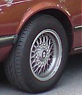 BBS alloy rim on BMW E24 633 CSi derived from source image (see below)